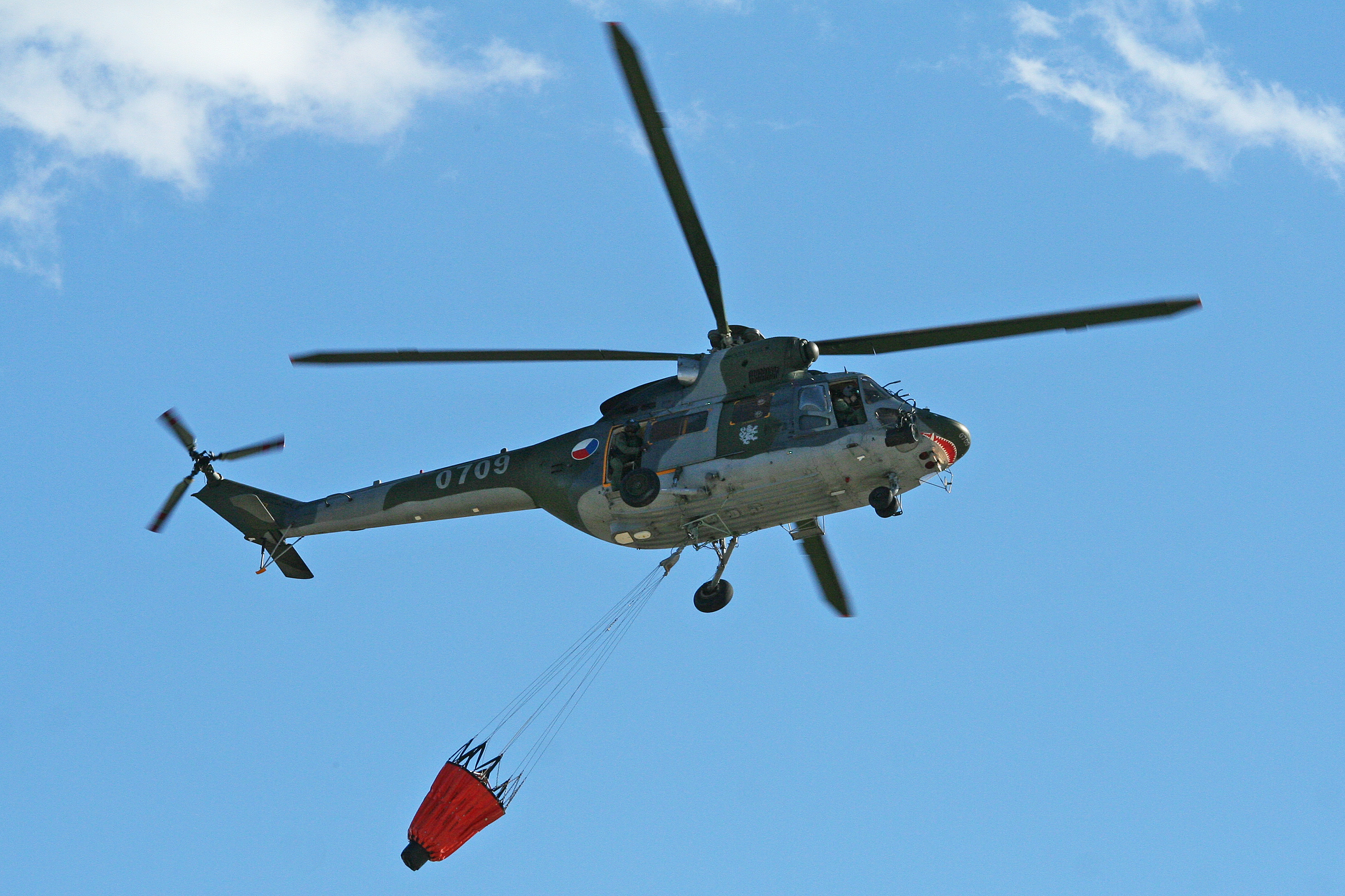 Operated by 243.vrl. Seen returning to its parking spot after a solo display. I love the sharkmouth! msn 370709. Namest Open Day, Czech Republic. 06-10-2012